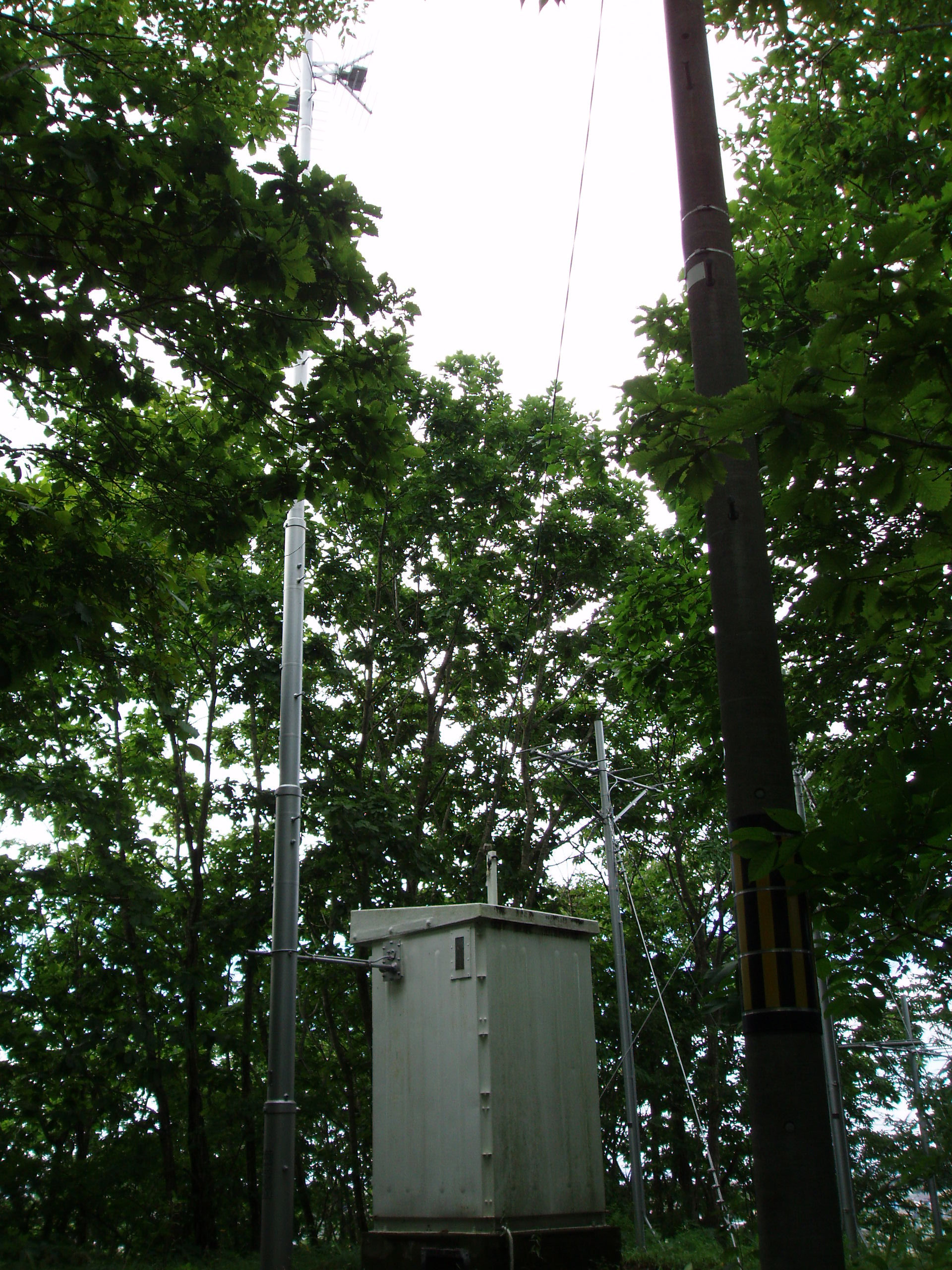 NHK Shiraoi Television Broadcasting Relay Station